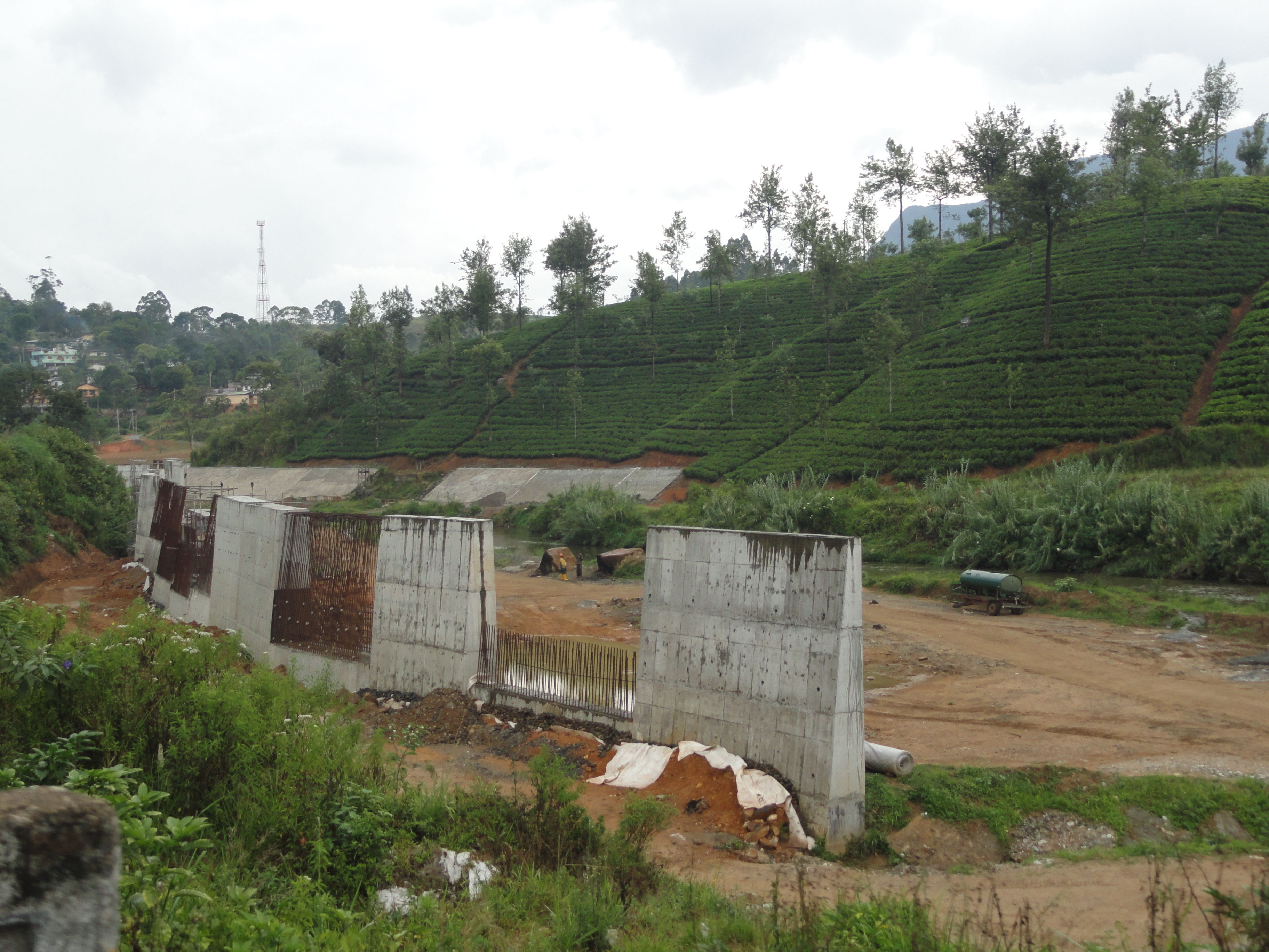 Preparations for the creation of the Upper Kotmale Reservoir, for the Upper Kotmale Dam, Talawakele, Sri Lanka.